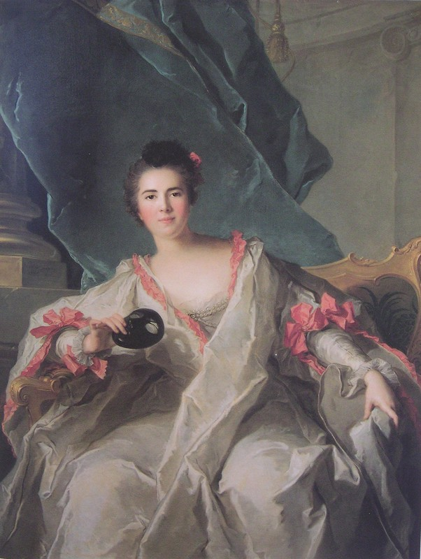 Marie-Therese Geoffrin, marquise de La Ferté-Imbault by Jean-Marc Nattier, 1740